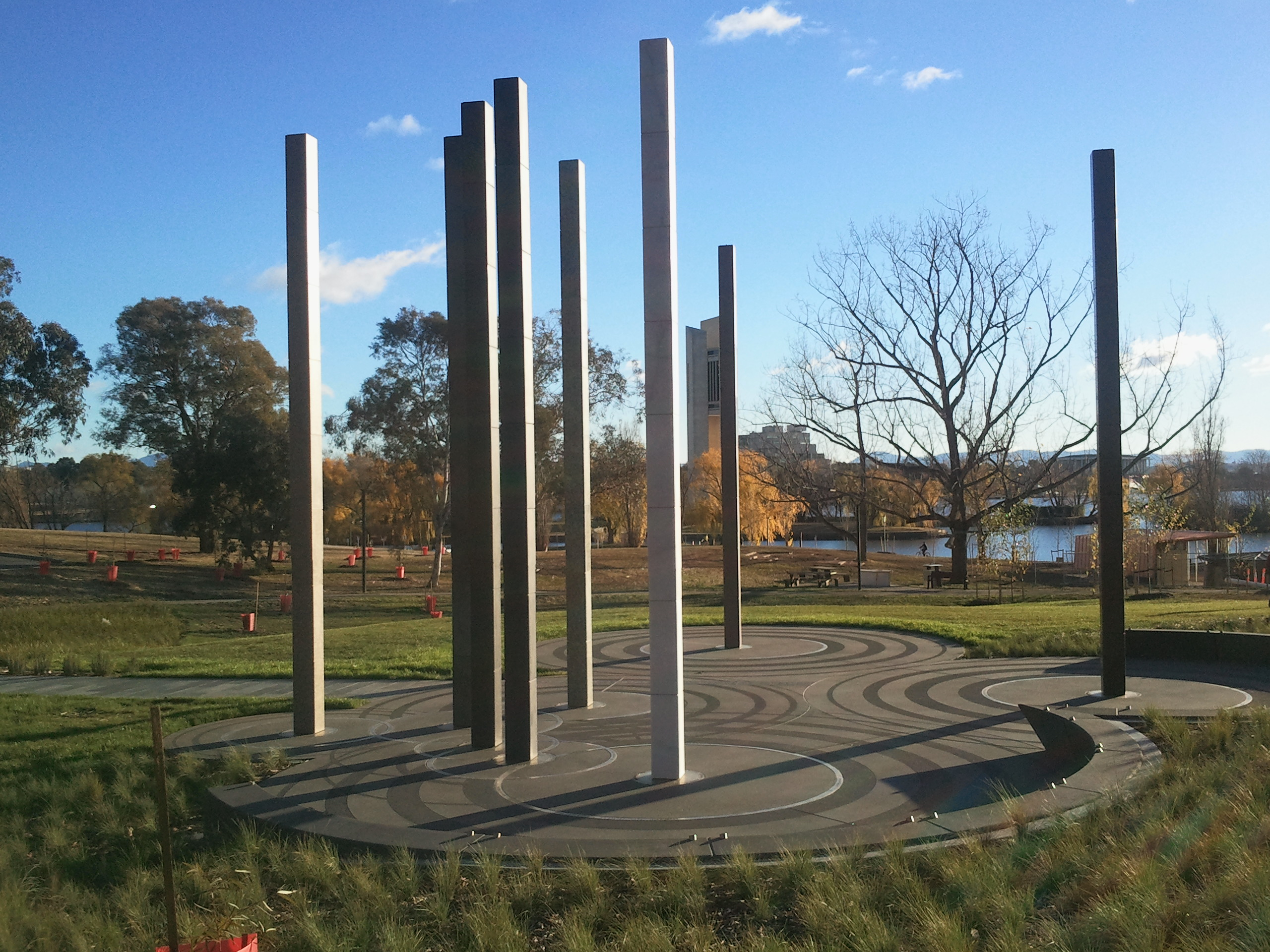 National Workers Memorial (Australia)